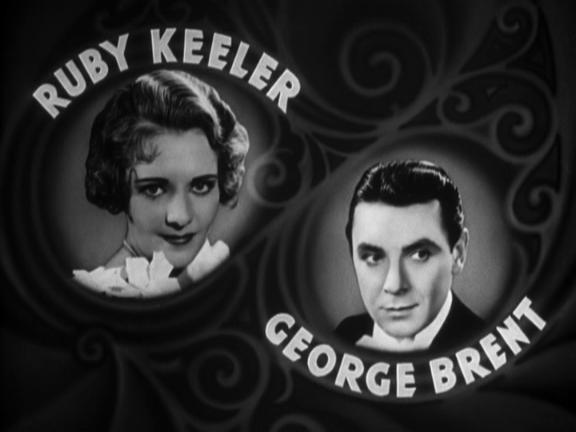 Frame from public domain trailer for 1933 Warner Bros. film 42nd Street showing Ruby Keeler and George Brent and their names in type